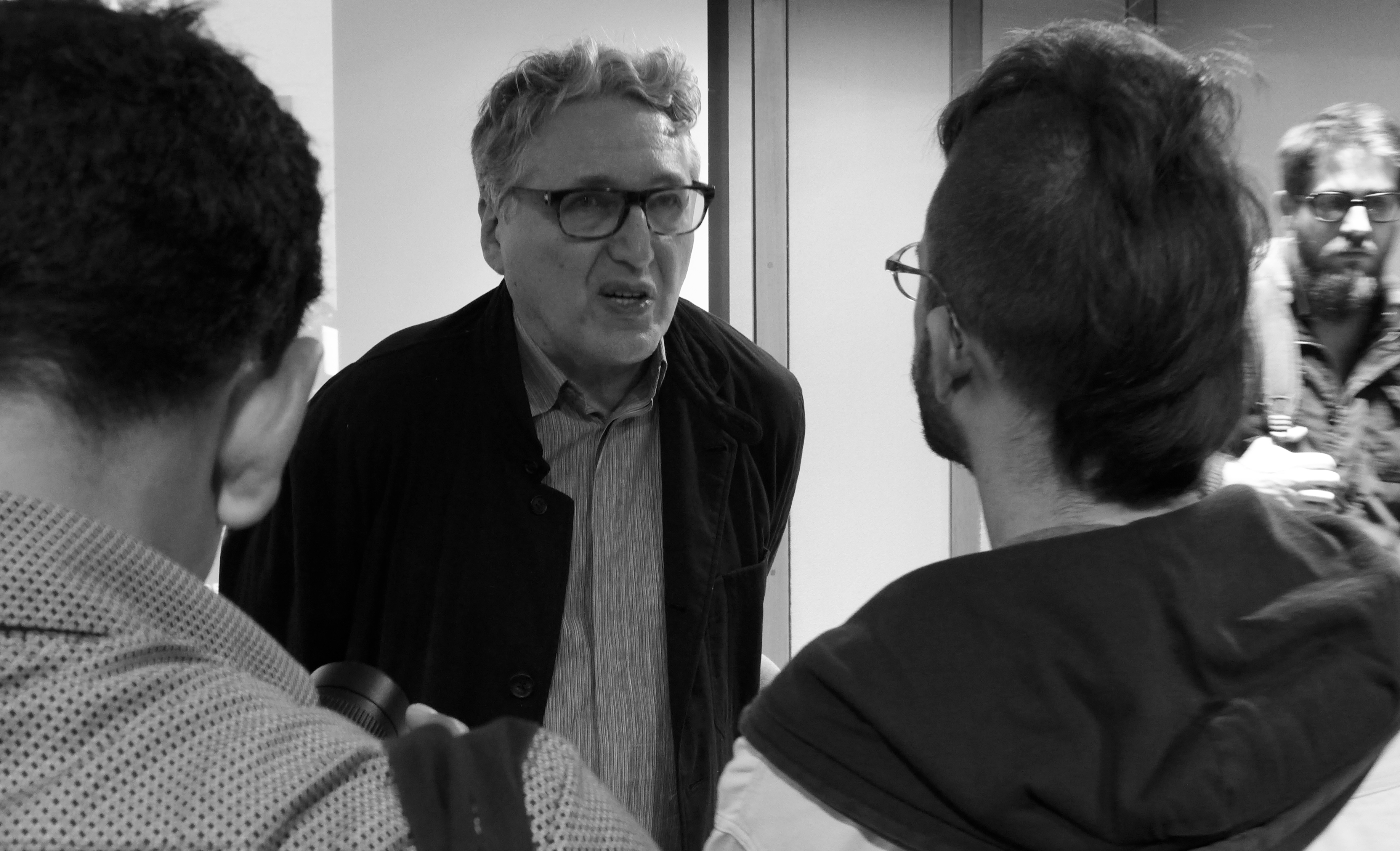 Boris Groys después de dar una charla en la Pontificia Universidad Católica del Perú